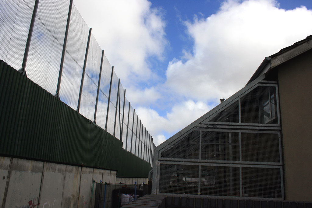 The "peace line" or "peace wall" at Bombay Street in Belfast, Northern Ireland. This is the Irish nationalist/Catholic side. The small back gardens of houses have to be protected by cages as missiles are sometimes thrown from the other side of the wall.